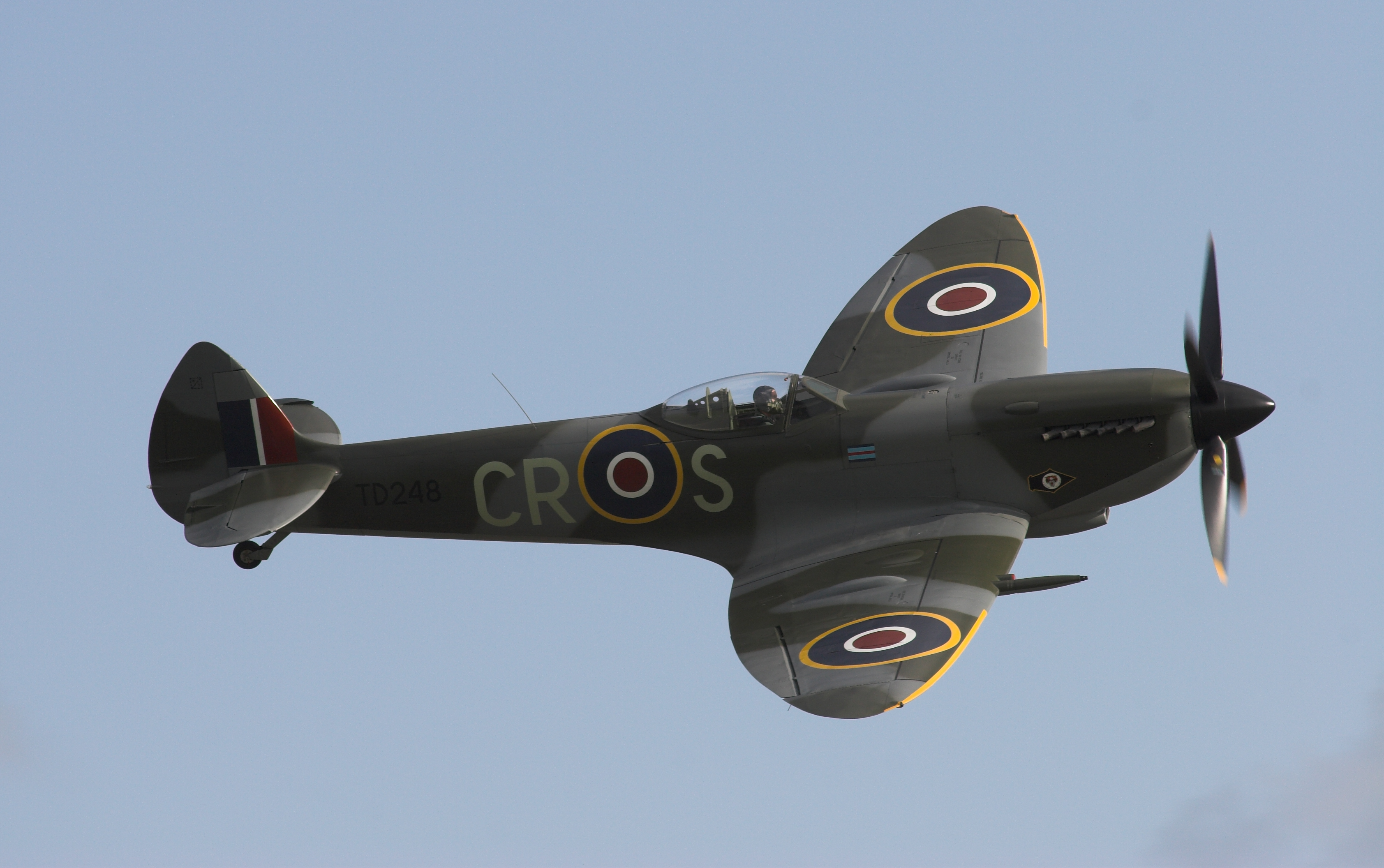 Supermarine Spitfire XVI at Duxford, September 2006.